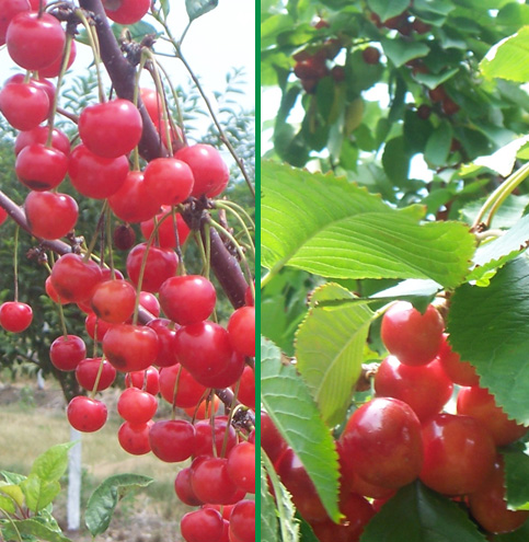 Tart (left) and sweet (right) cherries, from Amon Orchards in Acme MI (Carson Maynard, 2006).